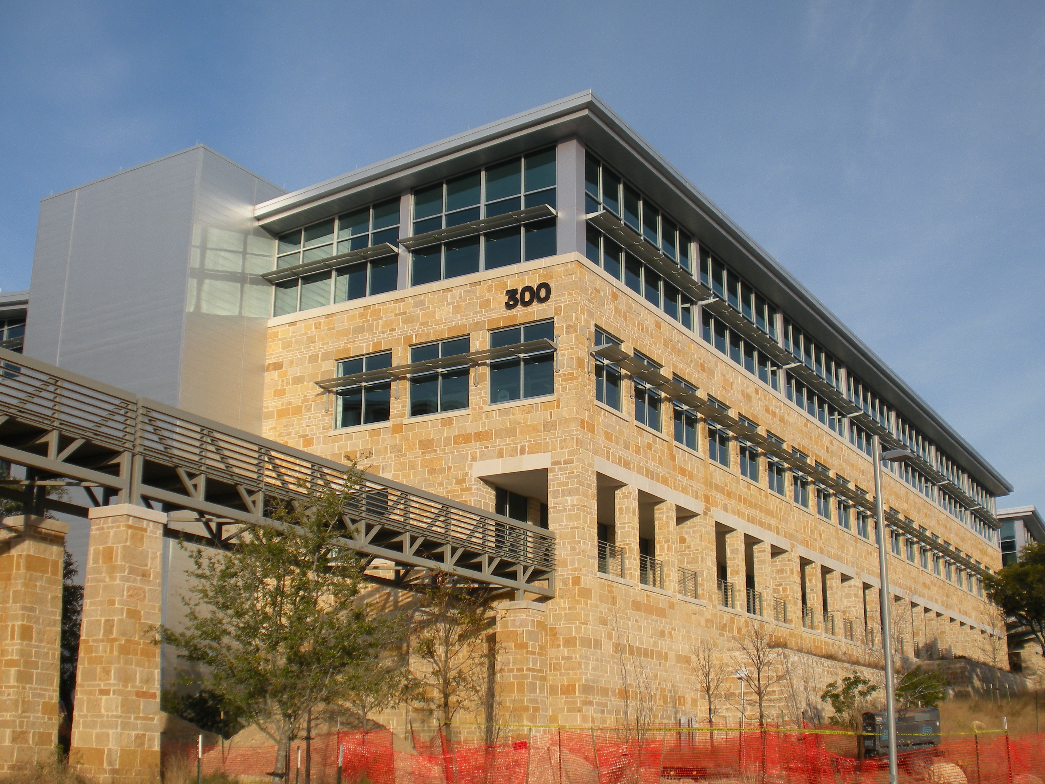 One of the 5 buildings of AMD's Lone Star Campus in Austin, Texas, which houses many of the worldwide business operations of the company.